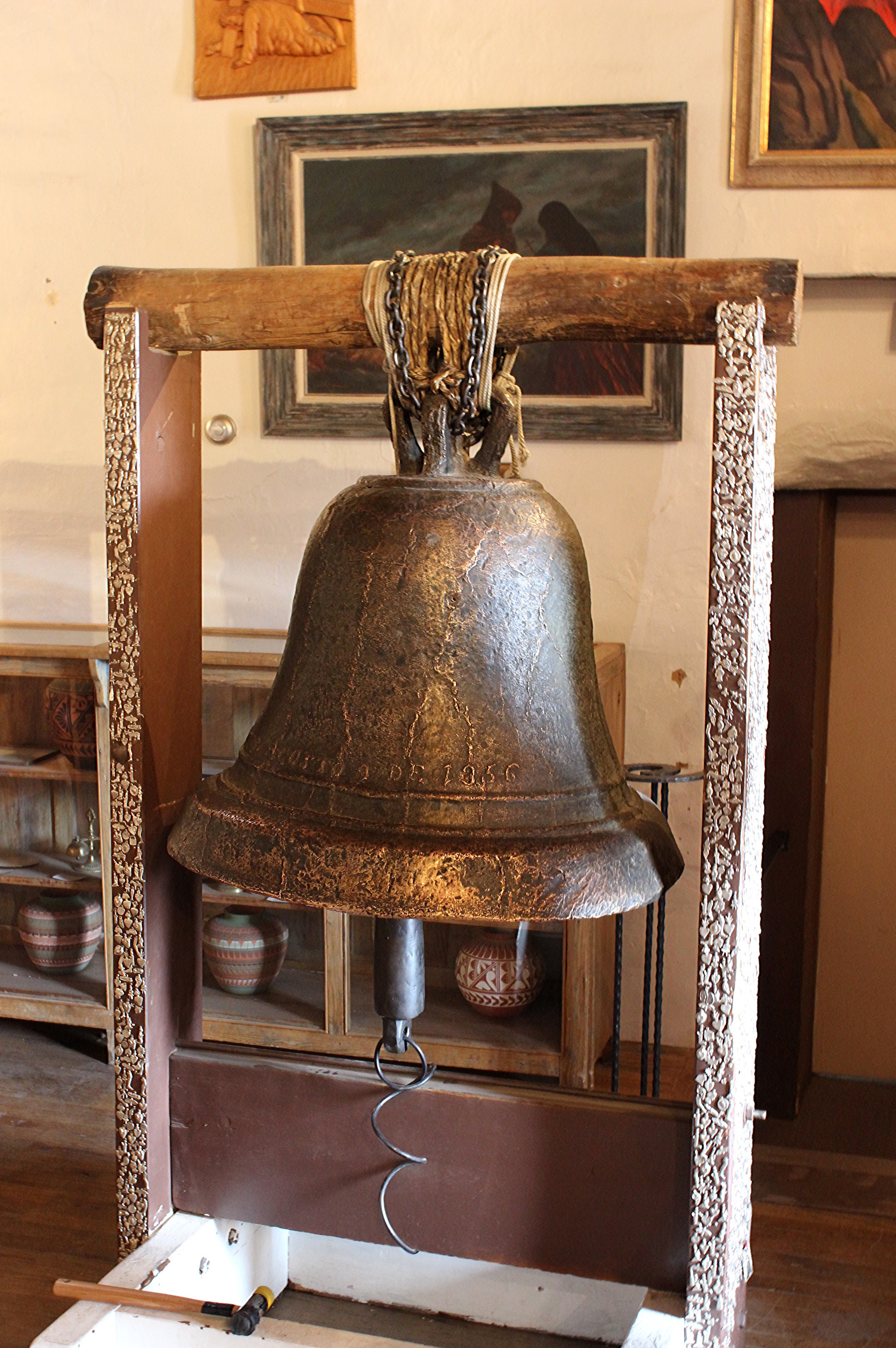 Original thick-walled church bell within San Miguel Mission at Santa Fe, New Mexico with the inscription "Agosto 9 de 1356/1856". It is thought that the 8 was changed to a 3 during the late 1800's as a means of luring in tourists.